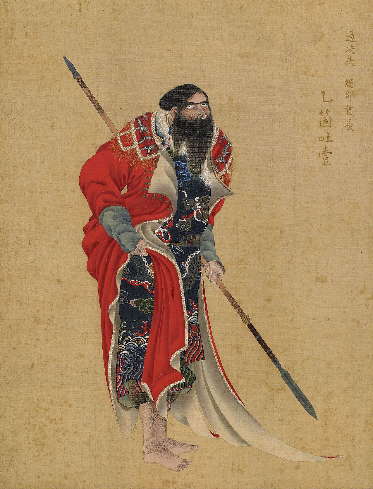 Ishuretsuzo: Ikotoi, Ainu Chieftain of Akkeshi, by Kakizaki Hakyo, Musée des Beaux-Arts et d'archéologie de Besançon, France